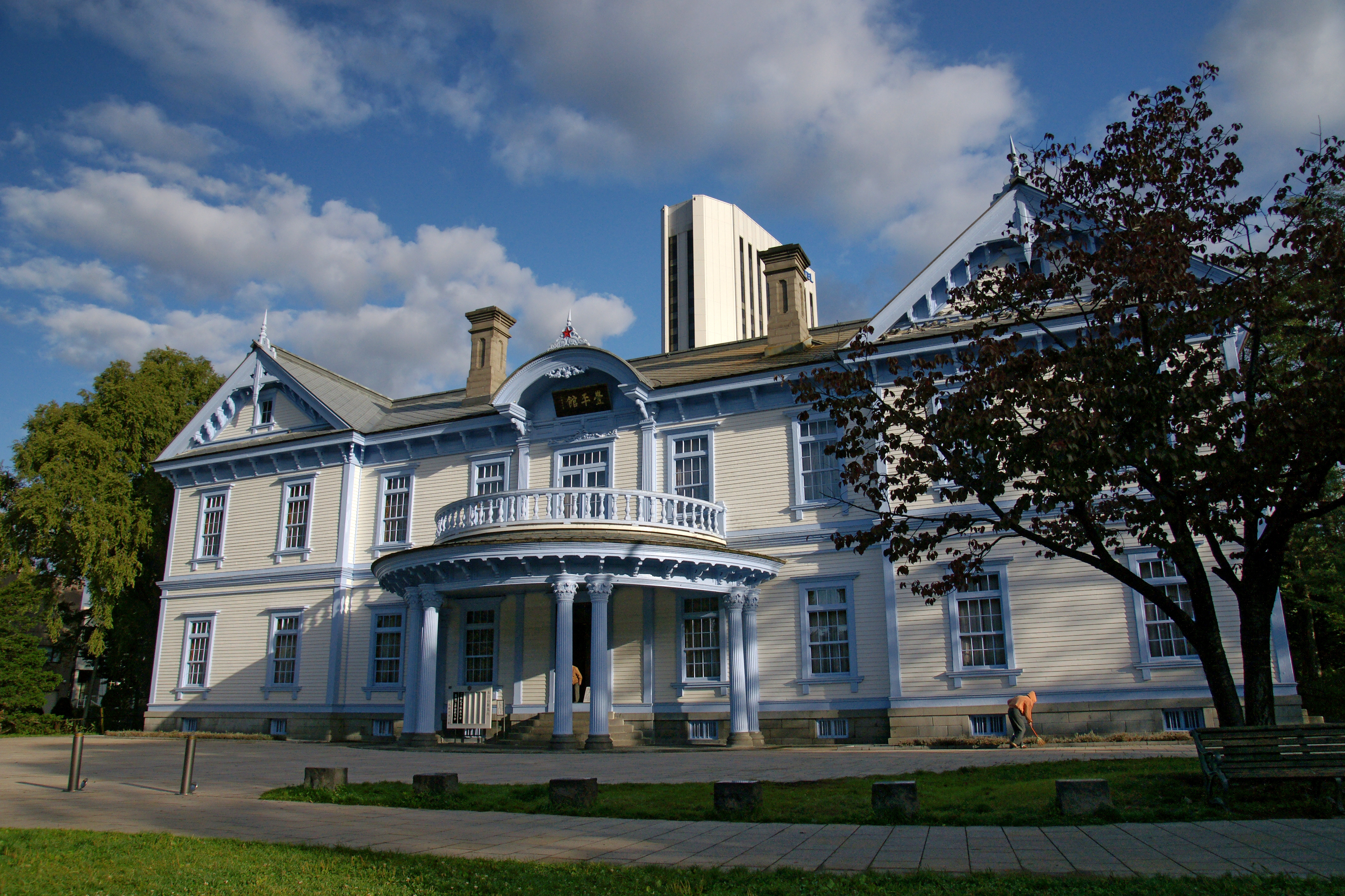 Hoheikan, Sapporo, Hokkaido prefecture, Japan